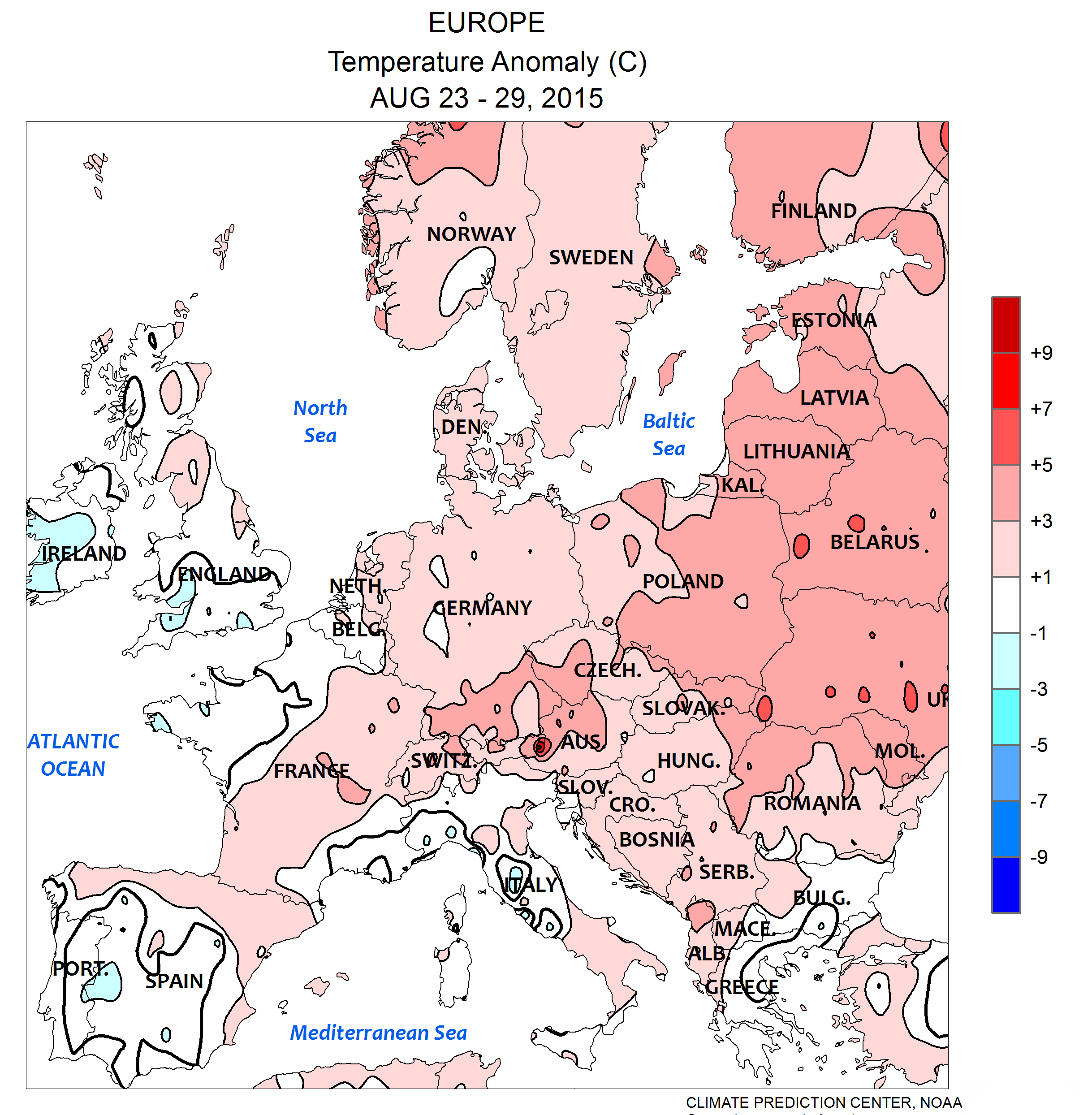 Europe: Temperature anomaly August 23 - 29, 2015, computer generated contours, based on preliminary data